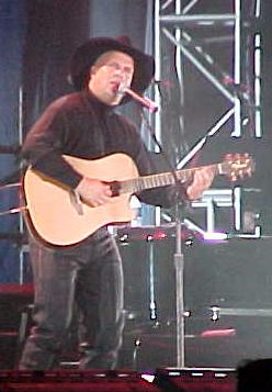 Garth Brooks at the Millenium March on Washington, D.C.